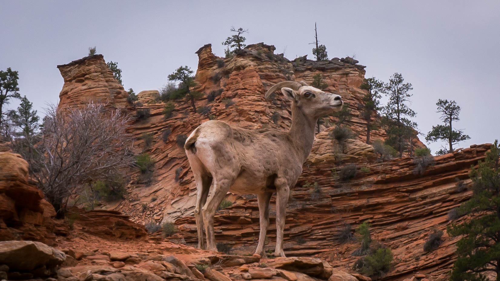 Bighorn Sheep at Zion National Park, March 28, 2016